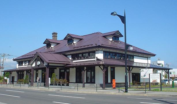 The former Muroran Station in Muroran, Hokkaido, Japan